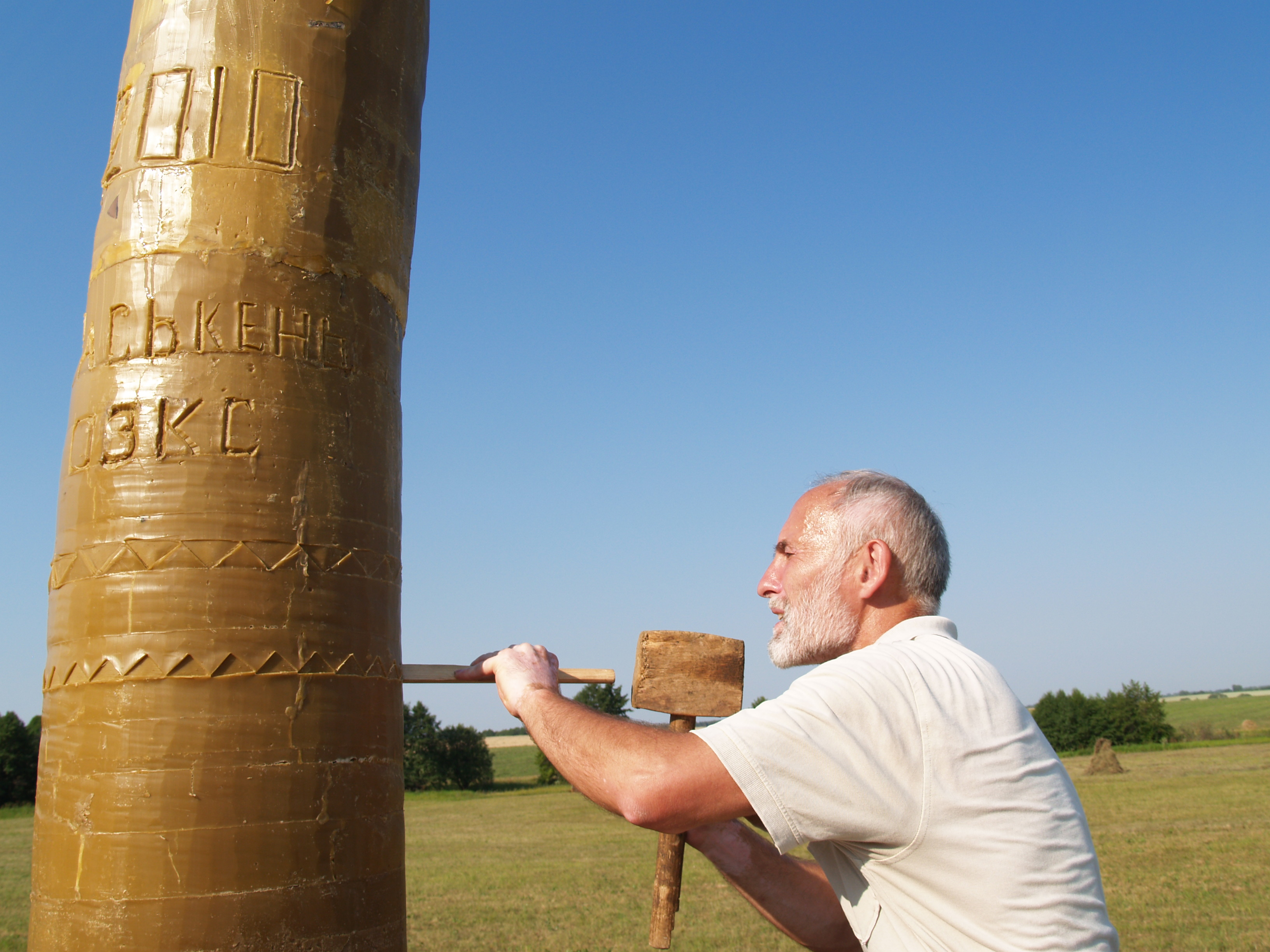 Erzya universal prayer (Rasken Ozks). the village of Chukaly, Bolsheignatovsky district, Mordovia. 7 July 2010. This photo has been taken in the country: Russia